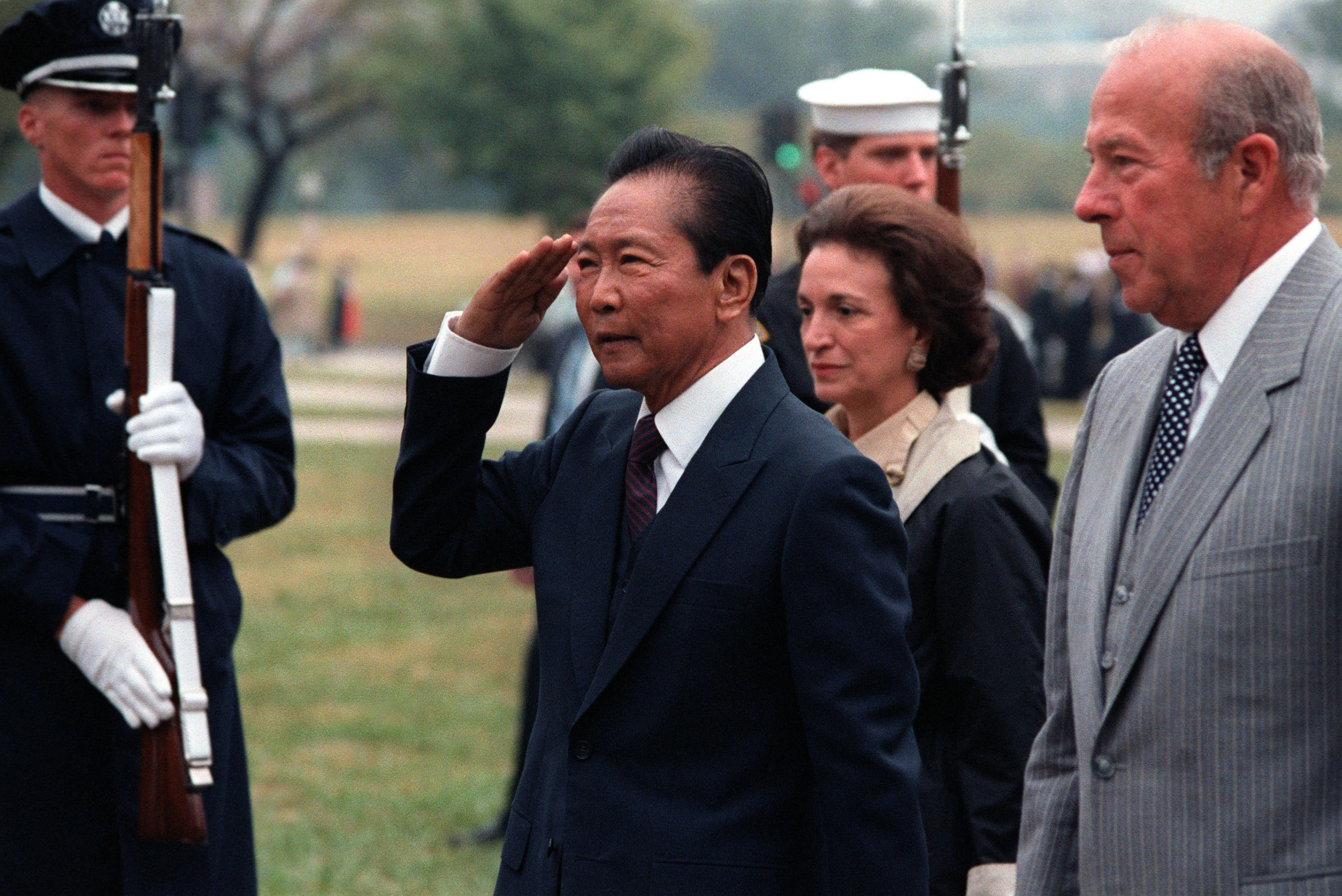 An armed forces full honor departure ceremony for Philippine President Ferdinard E. Marcos takes place with Secretary of State, George Shultz, in attendence.